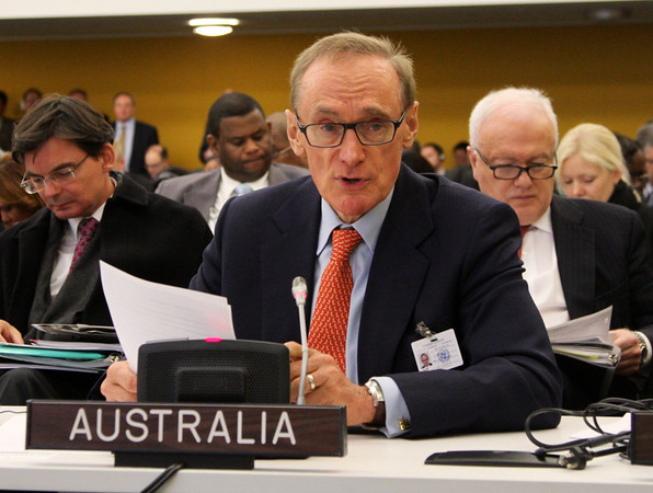 Australian Foreign Minister Carr opens negotiations on a global arms trade treaty, United Nations, New York March 20 2013.